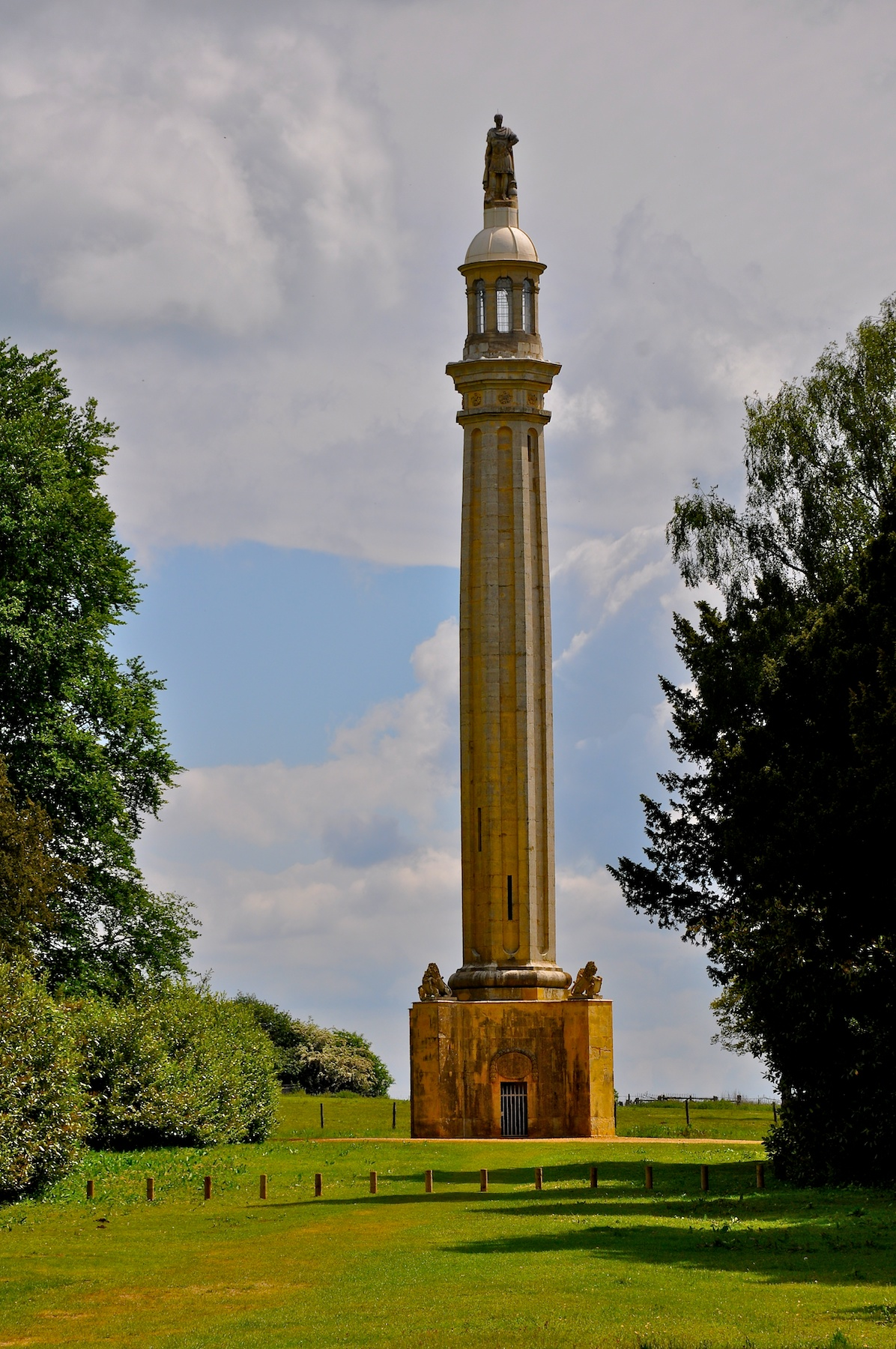 Lord Cobham's Monument